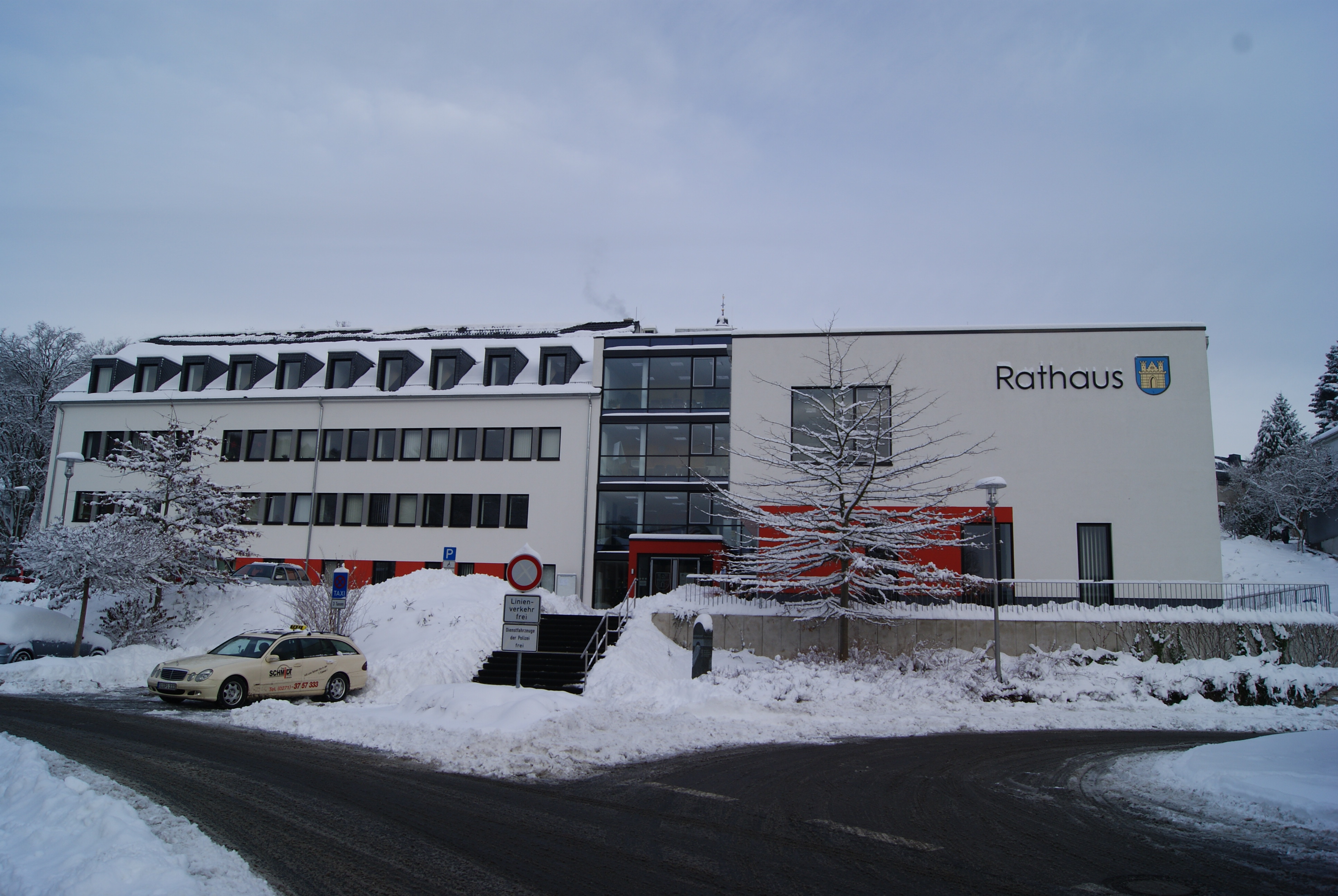 Freudenberg town hall (North Rhine-Westphalia, Germany).